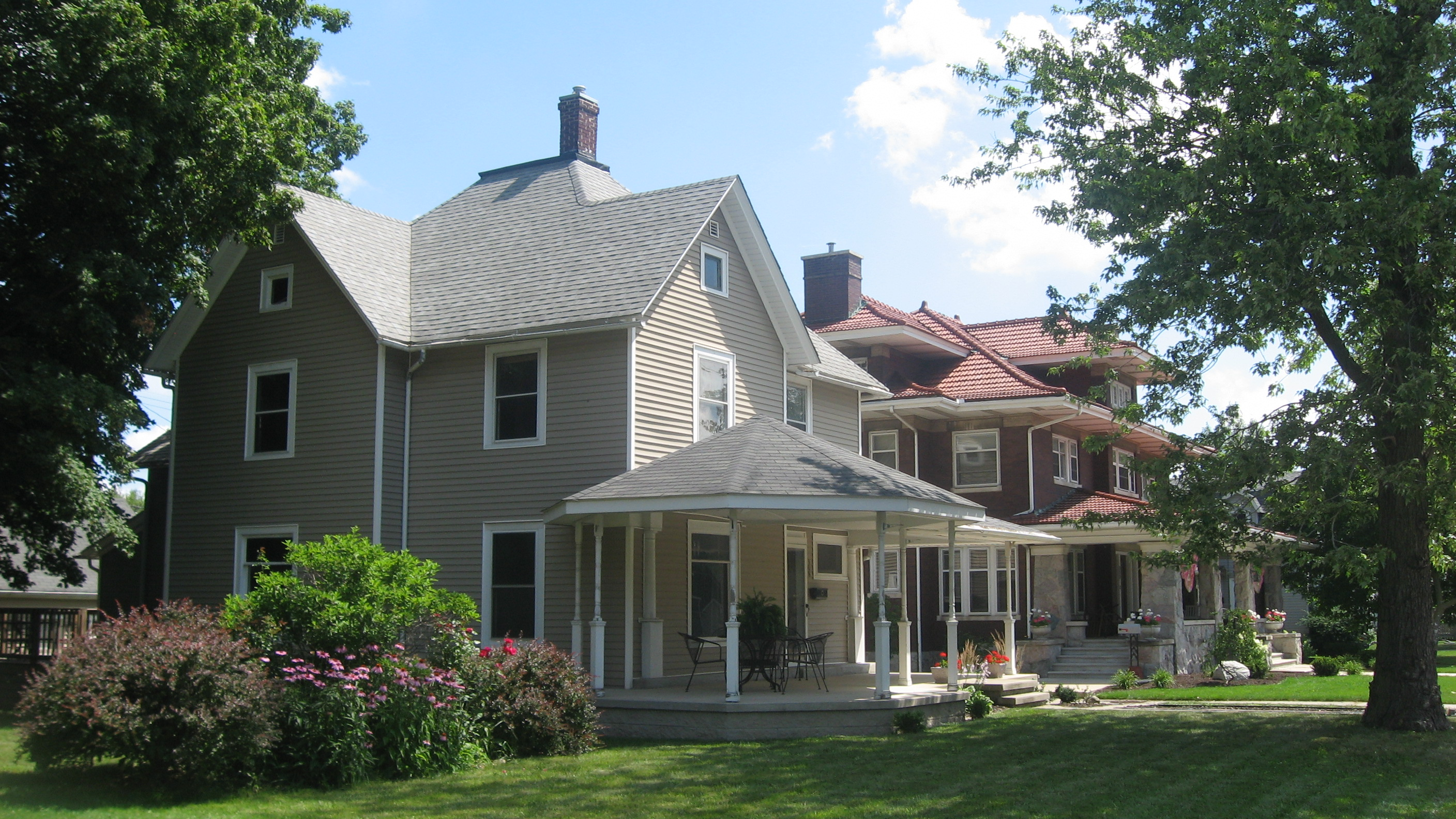 Houses on the northern side of the 300 block of E. Market Street (U.S. Route 6) in Nappanee, Indiana, United States. Located at 308 and 352 Market, the two are known as the Roy Berlin and Harvey Coppes Houses; built in 1895 and 1910, they are examples of the Queen Anne and the Arts and Crafts styles. They are part of the Nappanee Eastside Historic District, a historic district that is listed on the National Register of Historic Places.